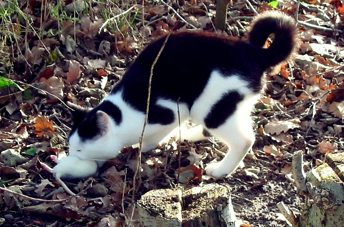 Predation. A successful feline game stalker.